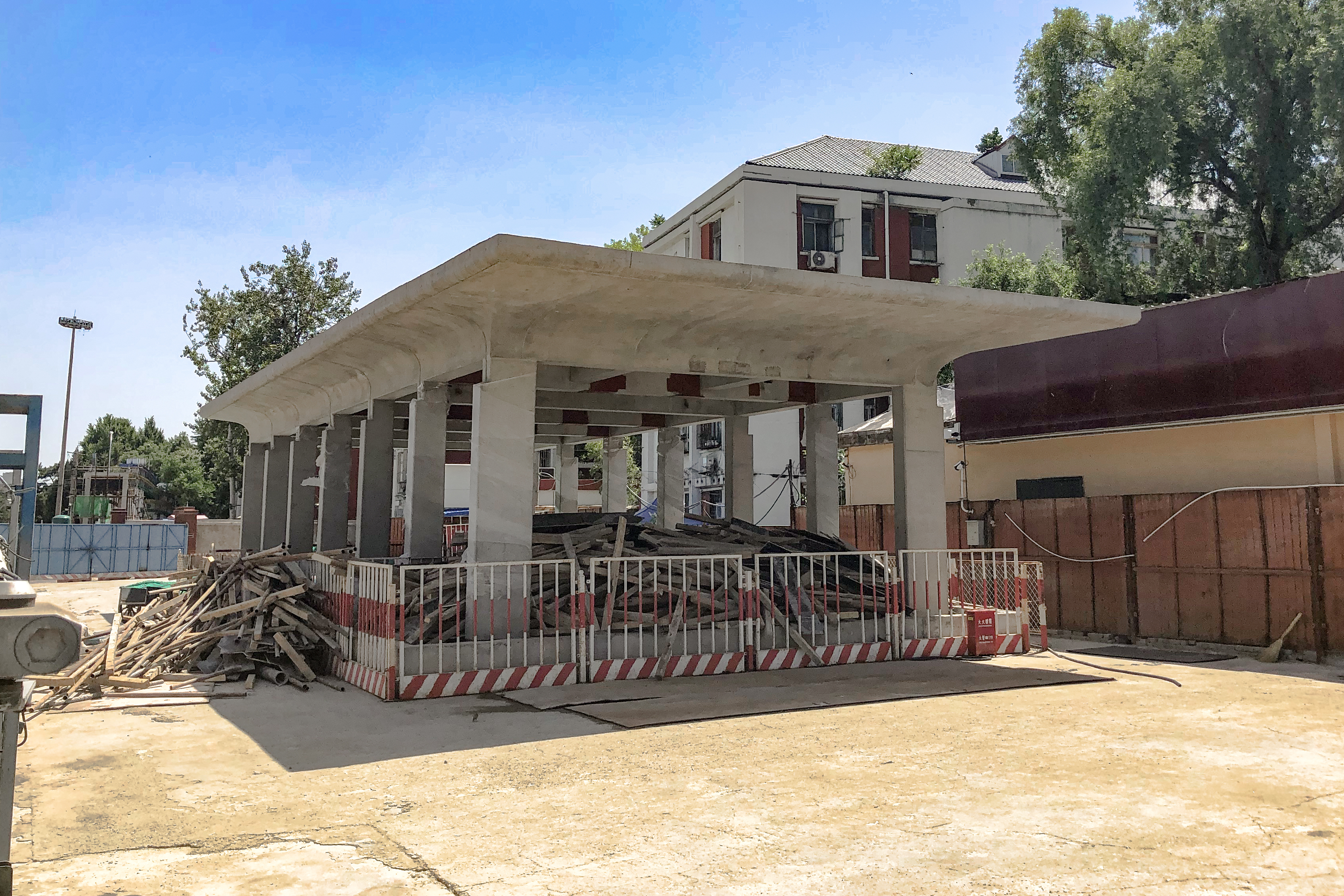 Will it really open at the end of 2020?